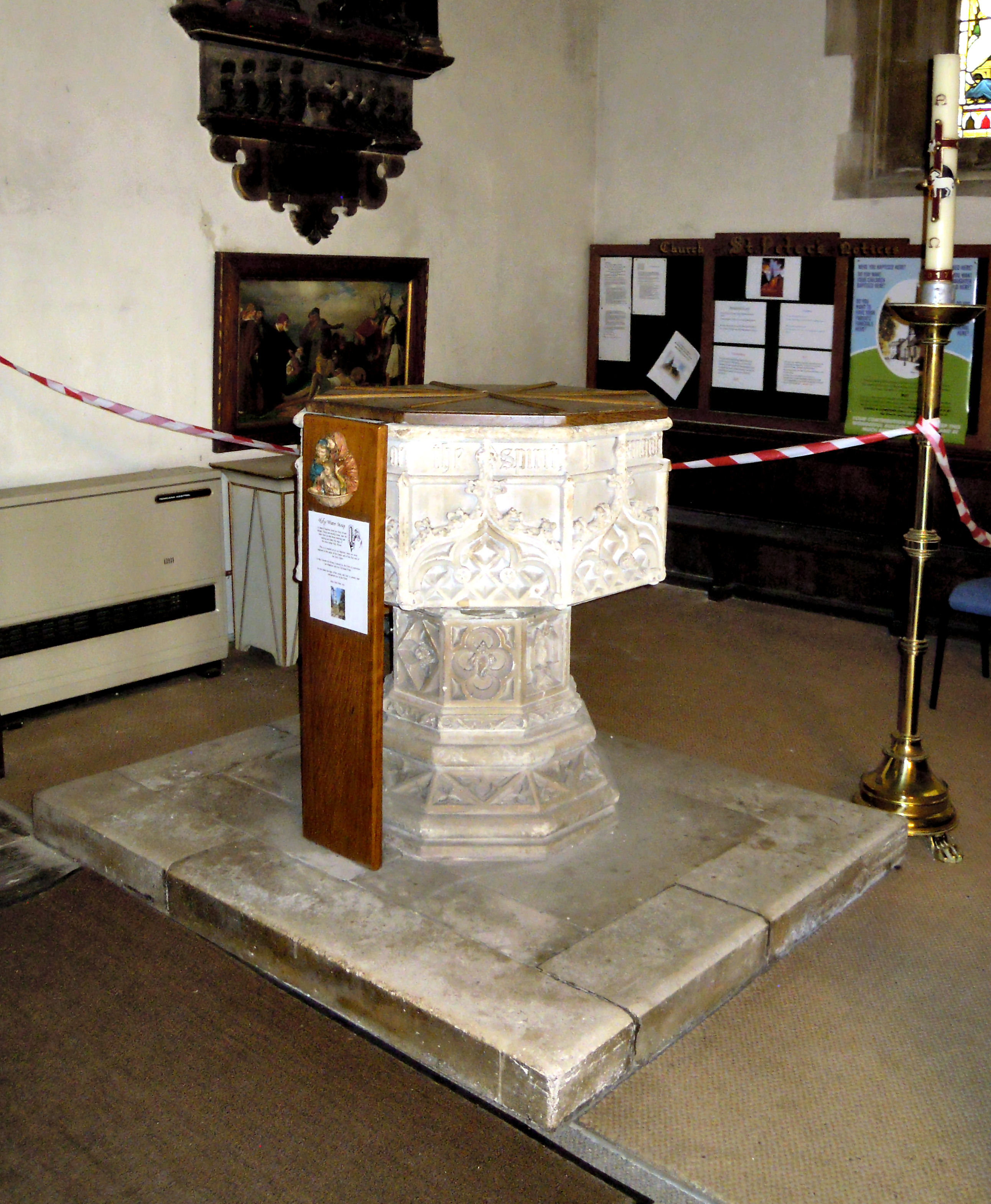 The baptismal font in SS Peter and Mary Magdalene parish church, Barnstaple, Devon showing its heraldic beasts